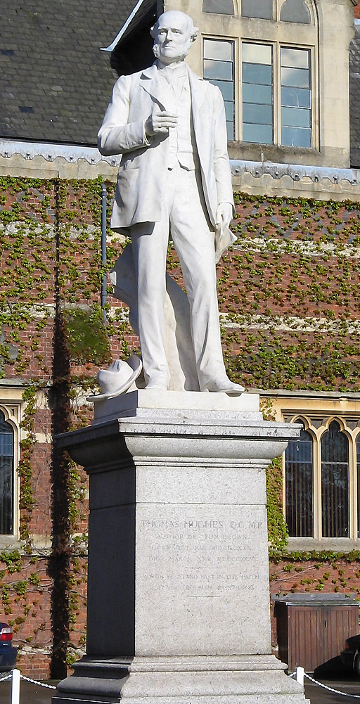 A statue of the author Thomas Hughes in the grounds of Rugby School. Photo by G-Man April 2005.